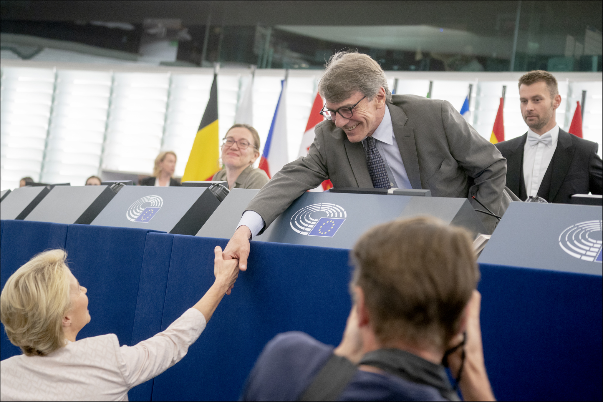 In a debate with MEPs, Ursula von der Leyen outlined her vision as Commission President. MEPs will vote on her nomination, held by secret paper ballot, at 18.00. Read more: This photo is free to use under Creative Commons license CC-BY-4.0 and must be credited: "CC-BY-4.0: © European Union 2019 – Source: EP". No model release form if applicable. For bigger HR files please contact: webcom-flickr(AT)